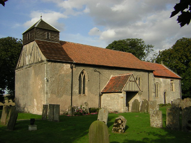 All Saints' parish church, Markham Clinton (West Markham), Nottinghamshire, seen from the southwest